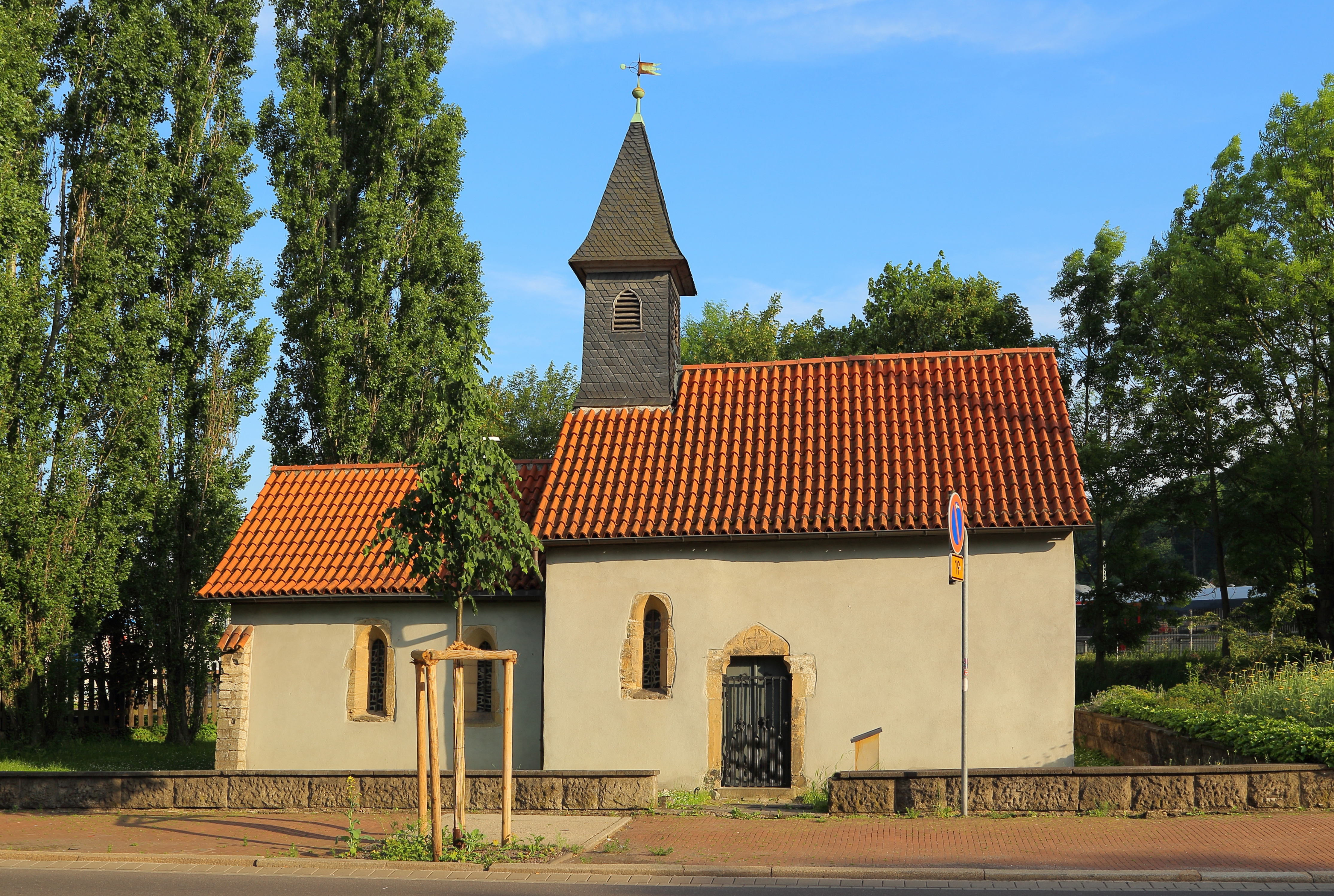 The Clemens Chapel (Clemenskapelle) in Eisenach, Thuringia, Germany.